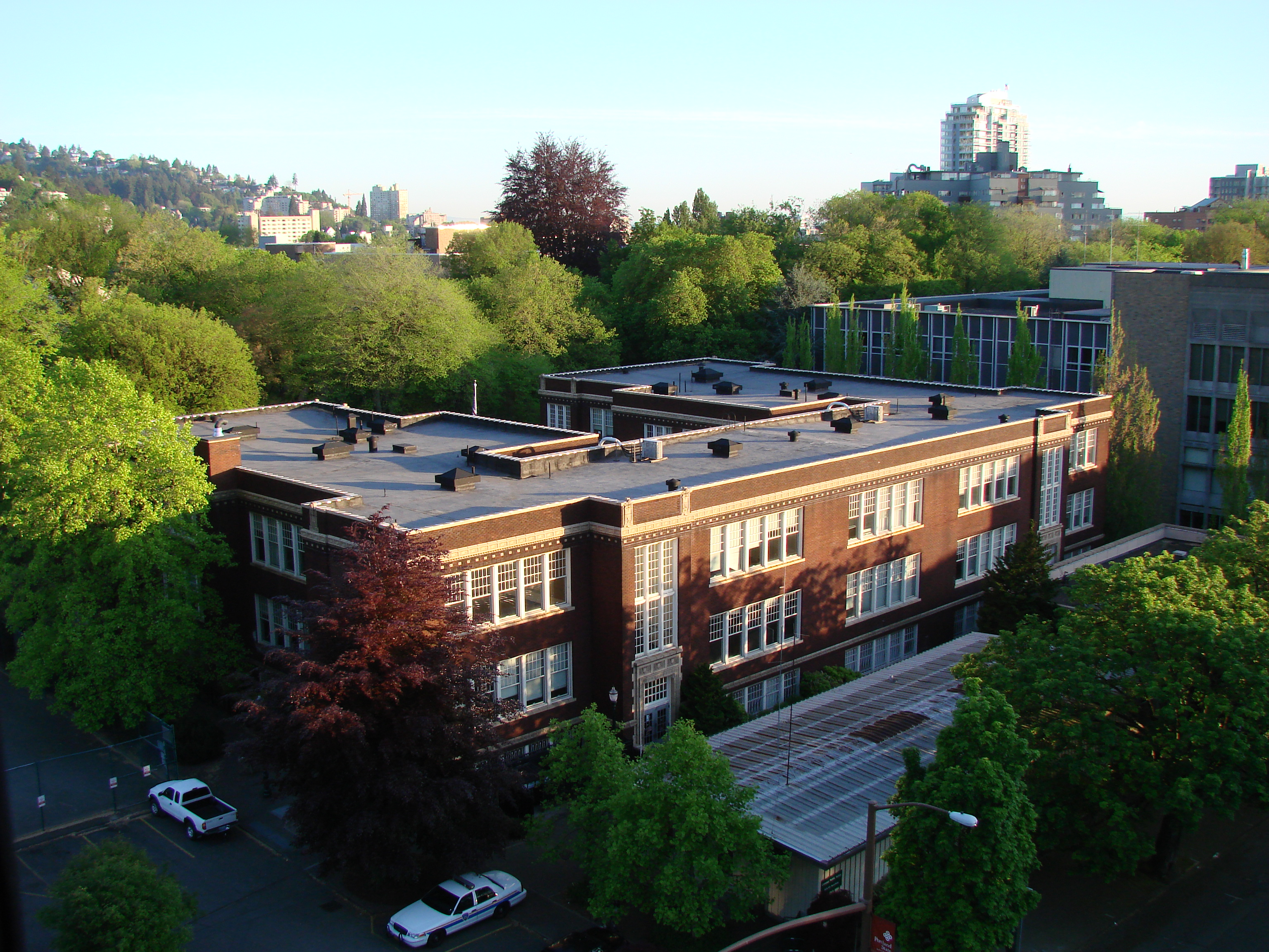 Portland State University, Shattuck Hall (Rear)